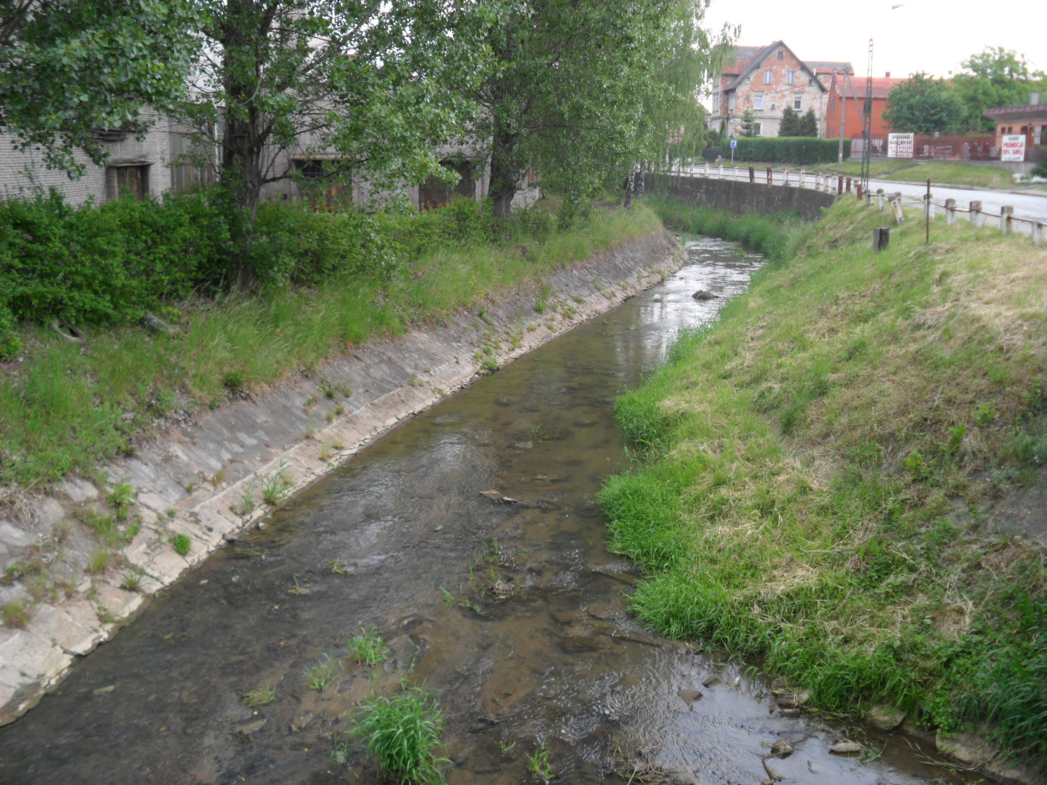 Oława (river) in Ziębice